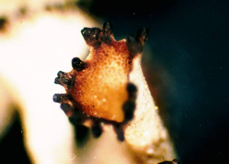 Cladonia cenotea (Ach.) Schaer., 1823 (photograph of a herbarium specimen taken through a dissecting microscope (x40) showing a cup rimmed with pycnidia) Growing on stumps in mixed forest along Caribou Plain Trail, at Fundy National Park, New Brunswick, Canada; collected and identified by A. Norden and B. Norden (No. L-12, 6 Jun 1974); specimen is now in the Lichen Herbarium of the New York Botanical Garden.